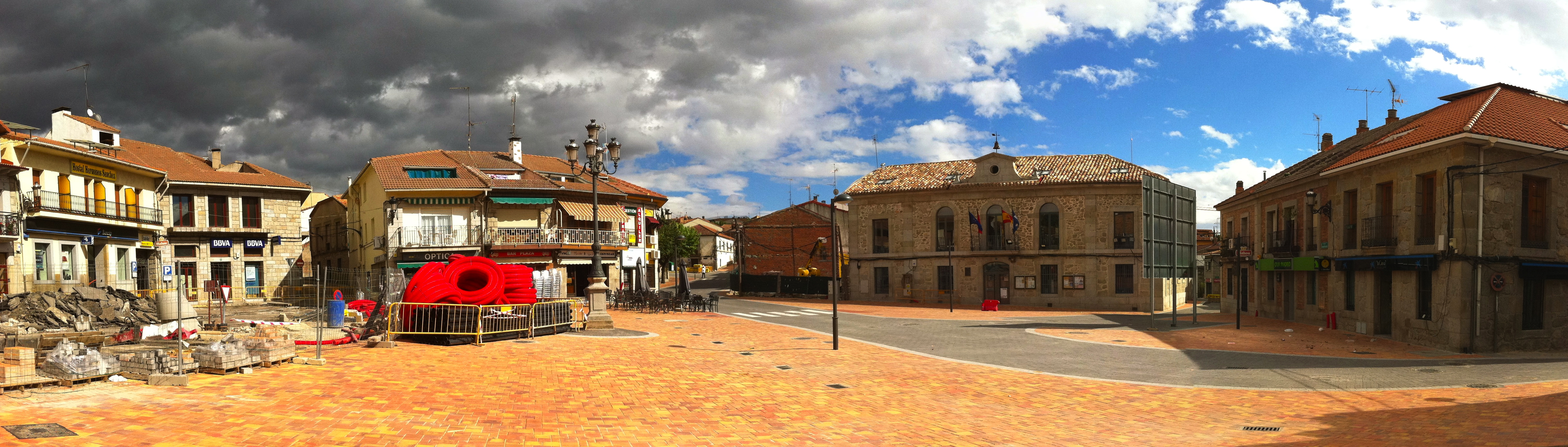 Remodeling and historic Pedestrianised the Valdemorillo